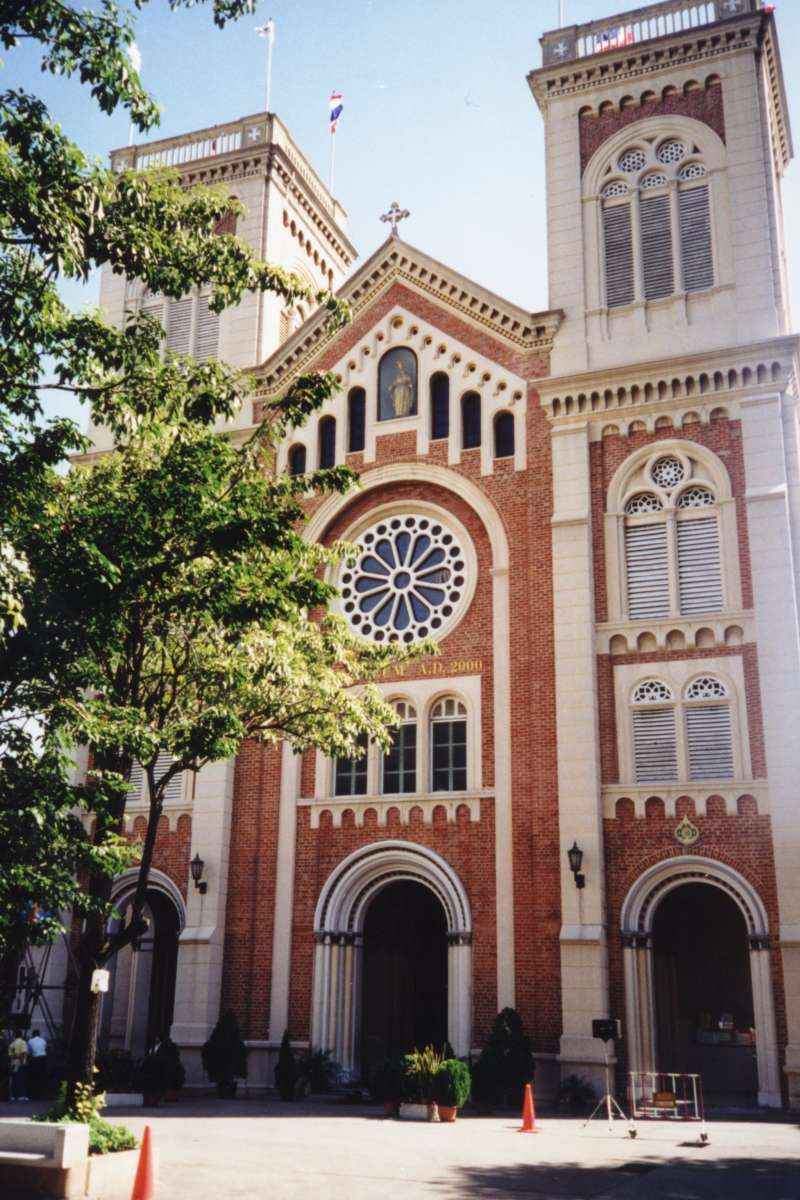 Assumption Cathedral (full name: Cathedral of the Assumption of the Blessed Virgin Mary, Thai: อาสนวิหารอัสสัมชัญ) in Bangkok, Thailand. The main roman-catholic church of Bangkok. Photo taken by User:Ahoerstemeier on November 2 2000.